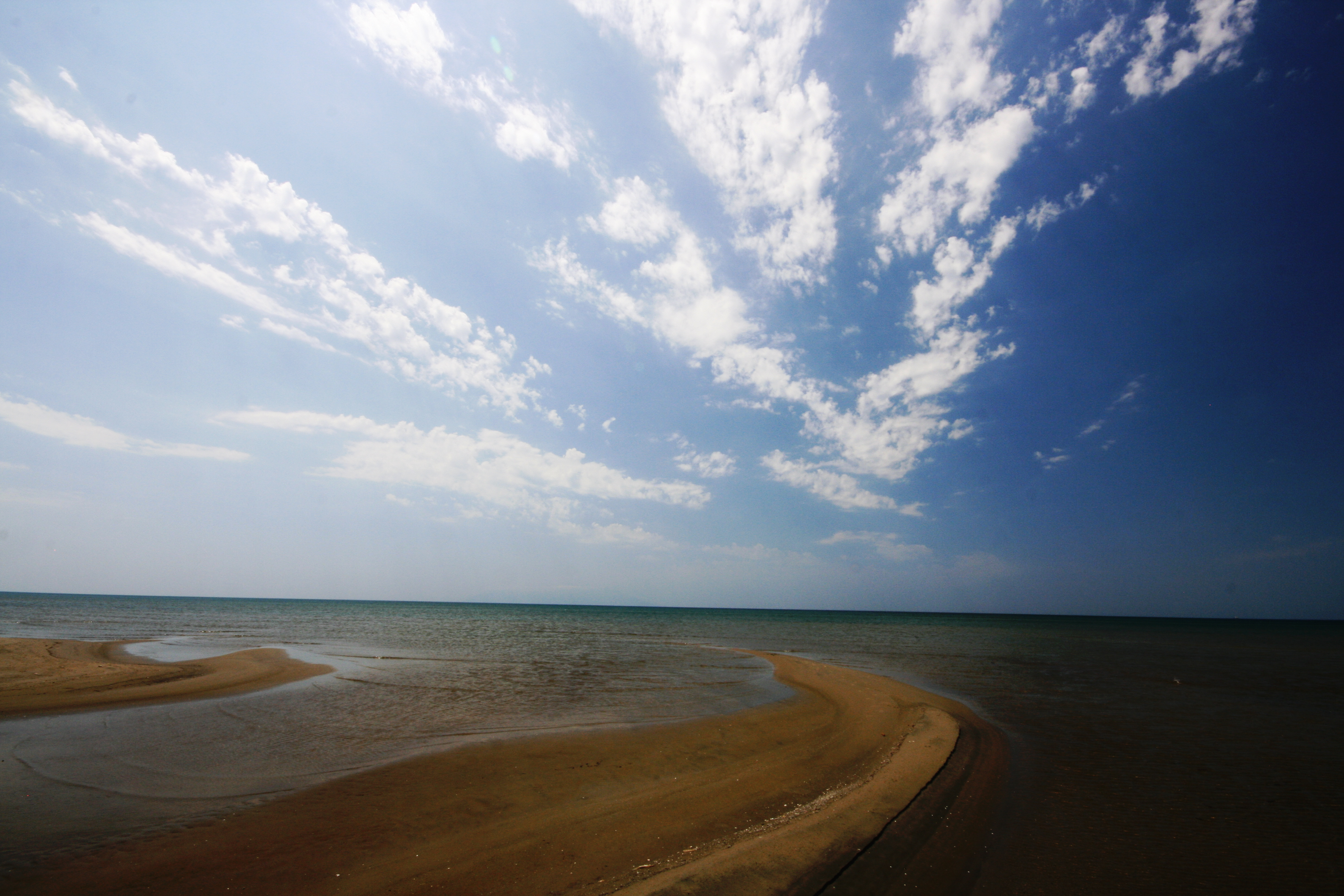 This is a photography of Natura 2000 protected area with ID GR1110006